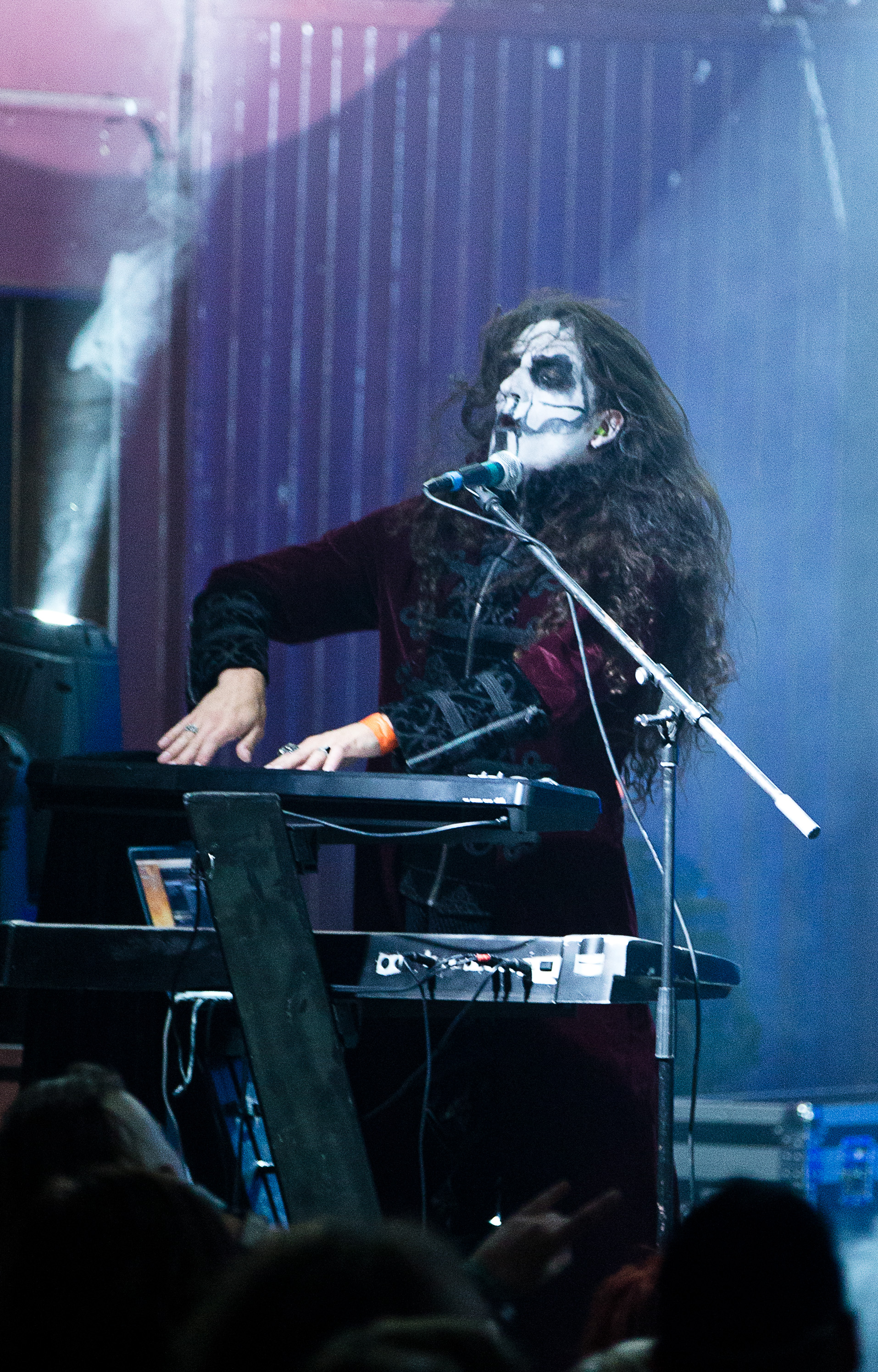 The Dutch symphonic black metal band Carach Angren at the 25. Wave-Gotik-Treffen 2016 in Leipzig/Germany.